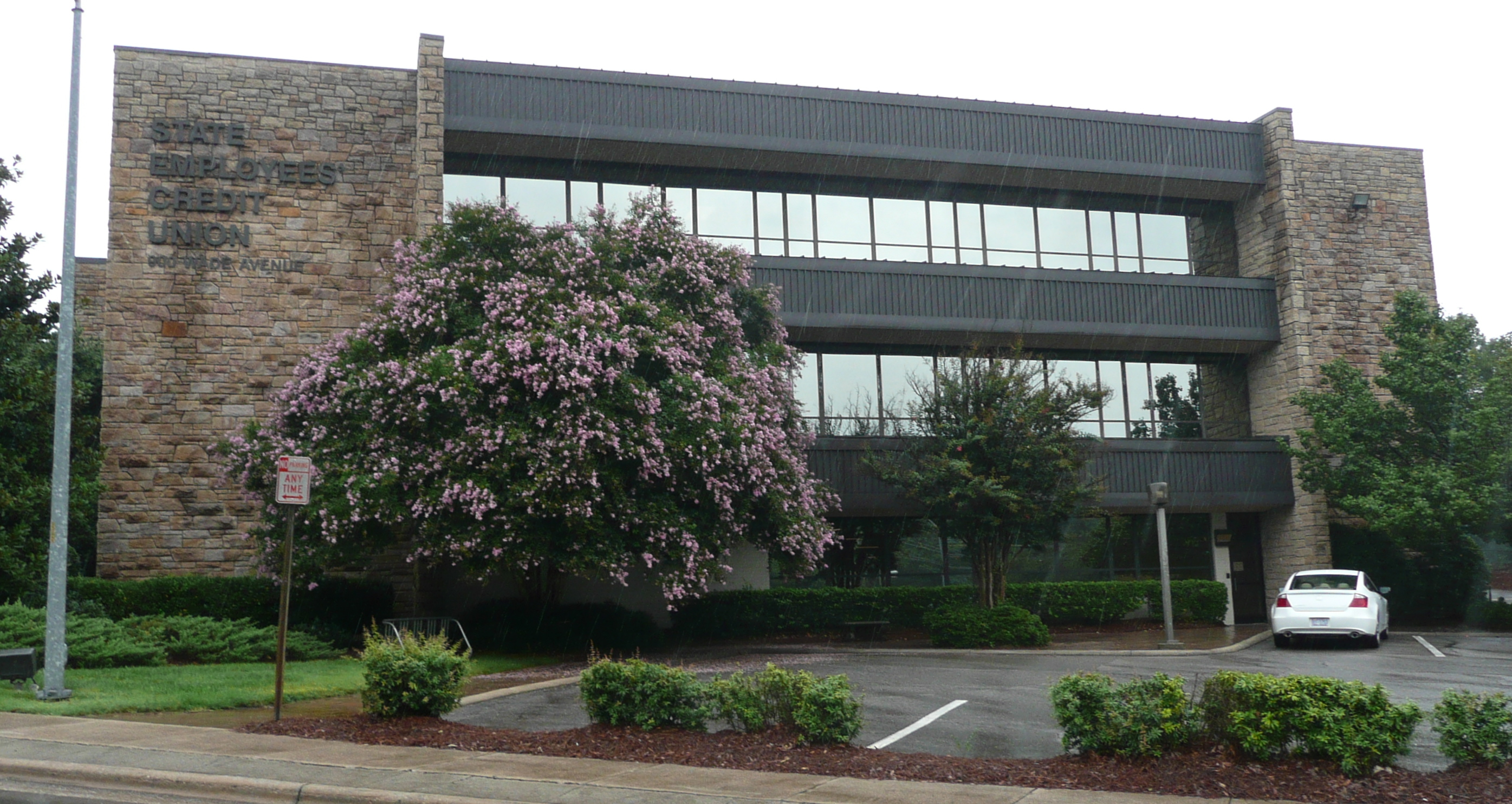 State Employees Credit Union, Wade Avenue, Raleigh, North Carolina. . Photographed during the Summer of Monuments 2014 camping trip. This image was uploaded as part of Wikipedia Summer of Monuments. English |+/−